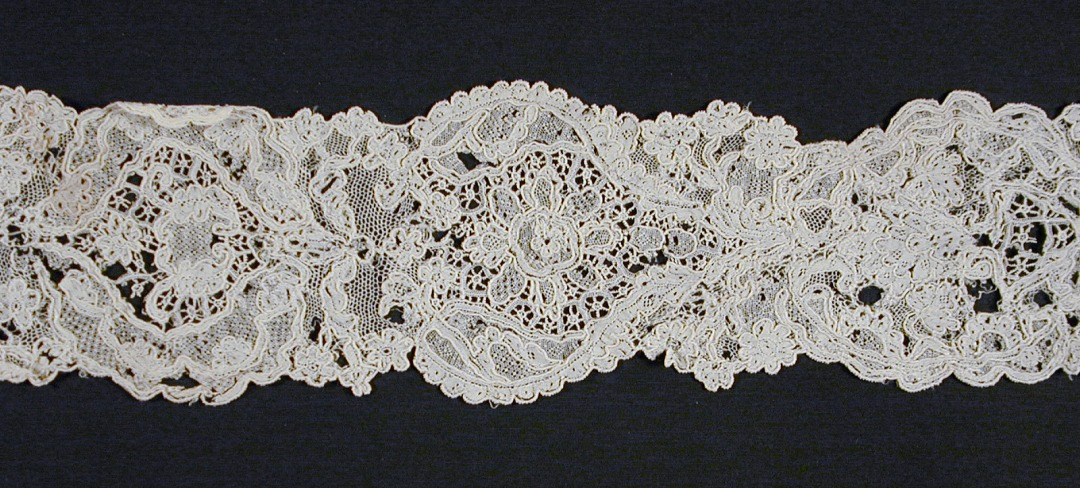 France, 1700-1725 Costumes Linen point de France needle lace Gift of Miss Beatrice Wood (60.41.60) Costume and Textiles